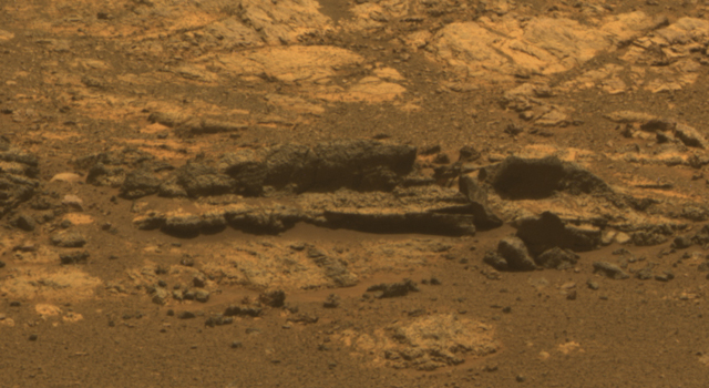 Opportunity Eyes Rock Fins on Cape York, Sol 3058 Rock fins up to about 1 foot (30 centimeters) tall dominate this scene from the panoramic camera (Pancam) on NASA's Mars Exploration Rover Opportunity. The component images were taken during the 3,058th Martian day, or sol, of Opportunity's work on Mars (Aug. 23, 2012). The view spans an area of terrain about 30 feet (9 meters) wide. This outcrop is within an area informally named "Matijevic Hill." Orbital investigation of the area has identified a possibility of clay minerals in this area of the Cape York segment of the western rim of Endeavour Crater. The view combines exposures taken through Pancam filters centered on wavelengths of 753 nanometers (near infrared), 535 nanometers (green) and 432 nanometers (violet). It is presented in approximate true color, the camera team's best estimate of what the scene would look like if humans were there and able to see it with their own eyes. Image credit: NASA/JPL-Caltech/Cornell Univ./Arizona State Univ.